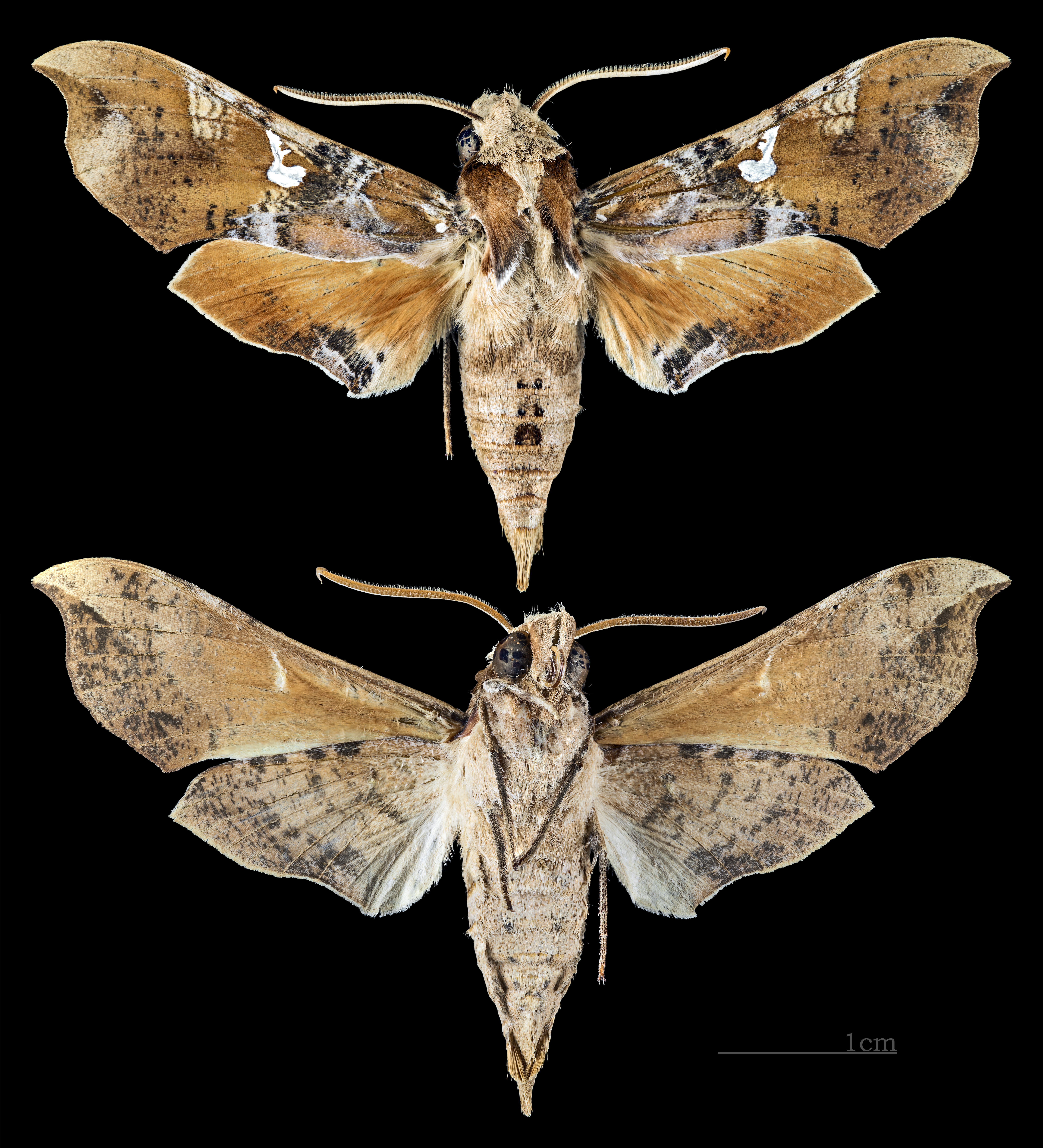 Parce Sphinx Moth - Two views of same specimen Collection of the Mathematician Laurent Schwartz